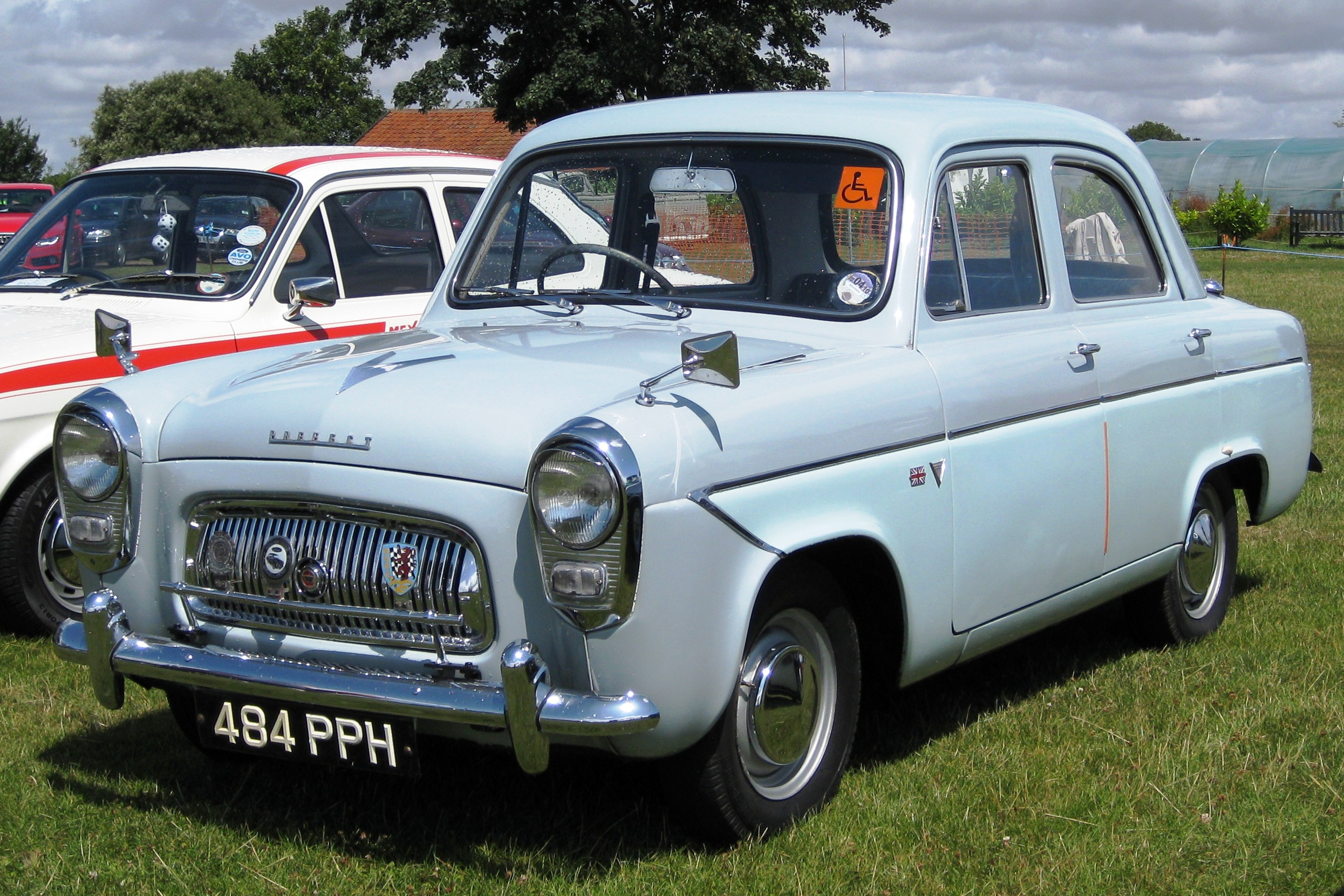 Ford Prefect 997cc first registered June 1960